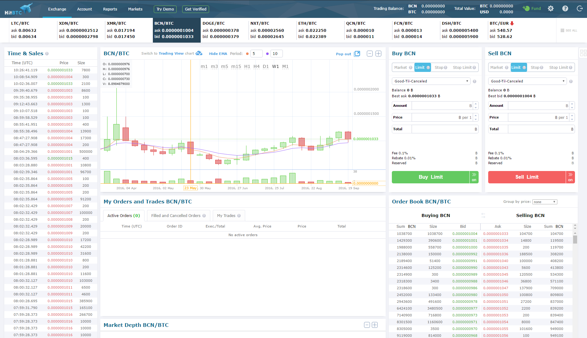 This is the advanced view of the terminal window of the HitBTC cryptocurrency exchange